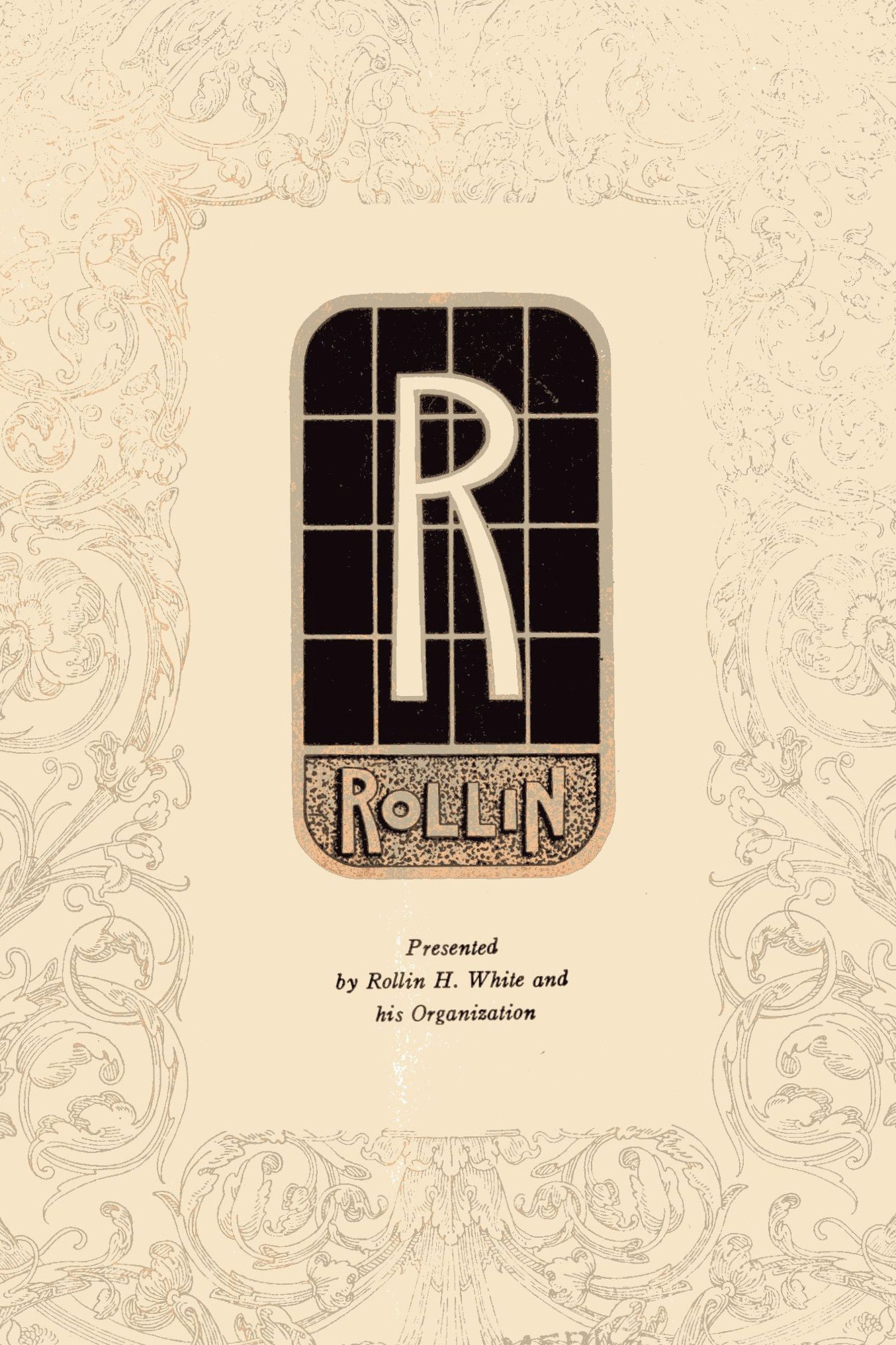 Rollin - original brochure front page